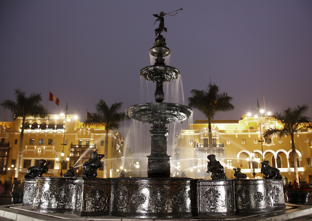 Urban view of Lima.